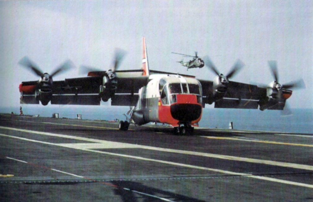 A Ling-Temco-Vought XC-124A after landing aboard the U.S. Navy aircraft carrier USS Bennington (CVS-20) off San Diego, California (USA), on 18 May 1966. Note the Sikorsky SH-3A Sea King in the background.